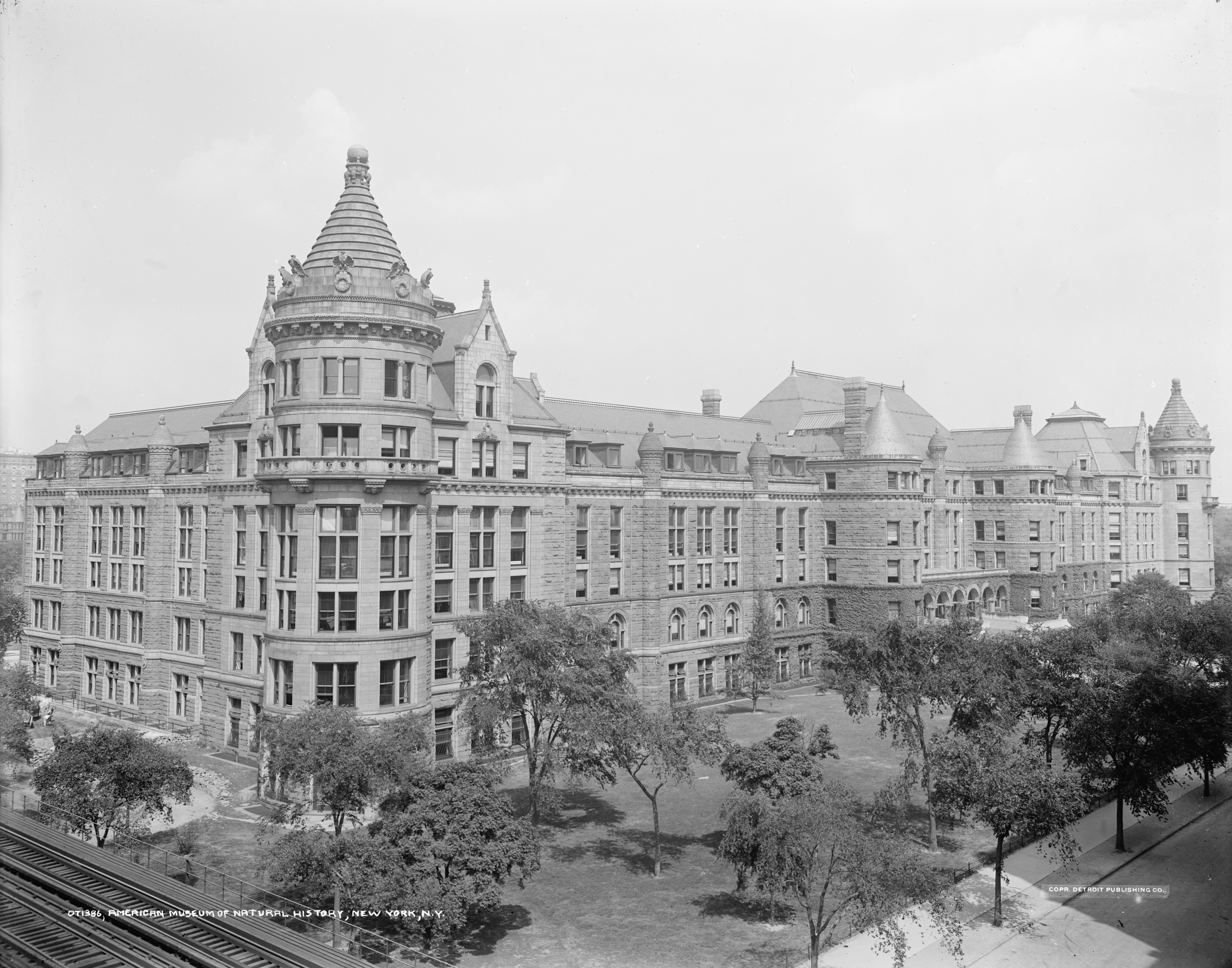 American Museum of Natural History in New York City, ca. 1900-1910.